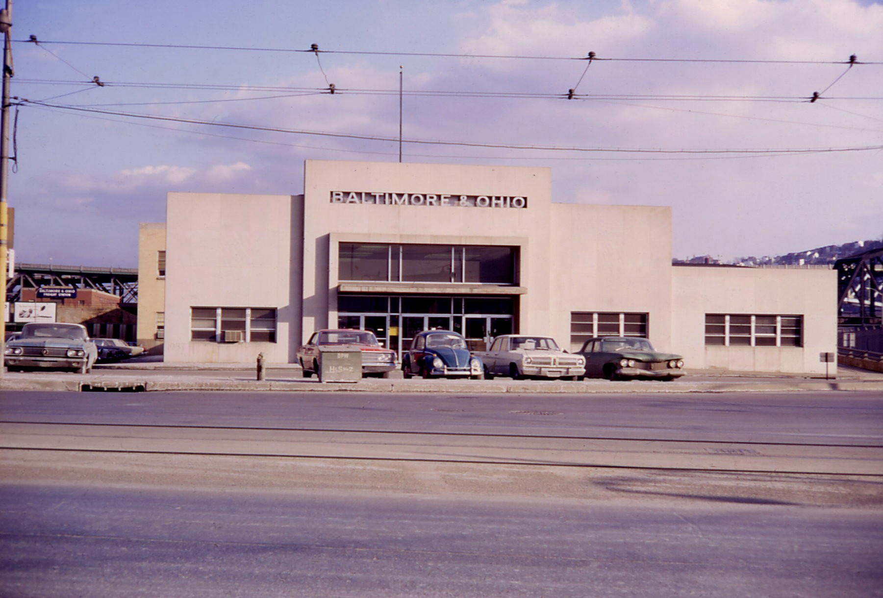 B&O intercity trains used the P&LE station but the local trains to and from McKeesport and Versailles used the B&O station on Grant Street.